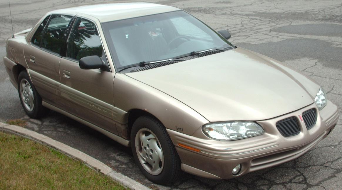 1996-1998 Pontiac Grand Am photographed in Montreal, Quebec, Canada.